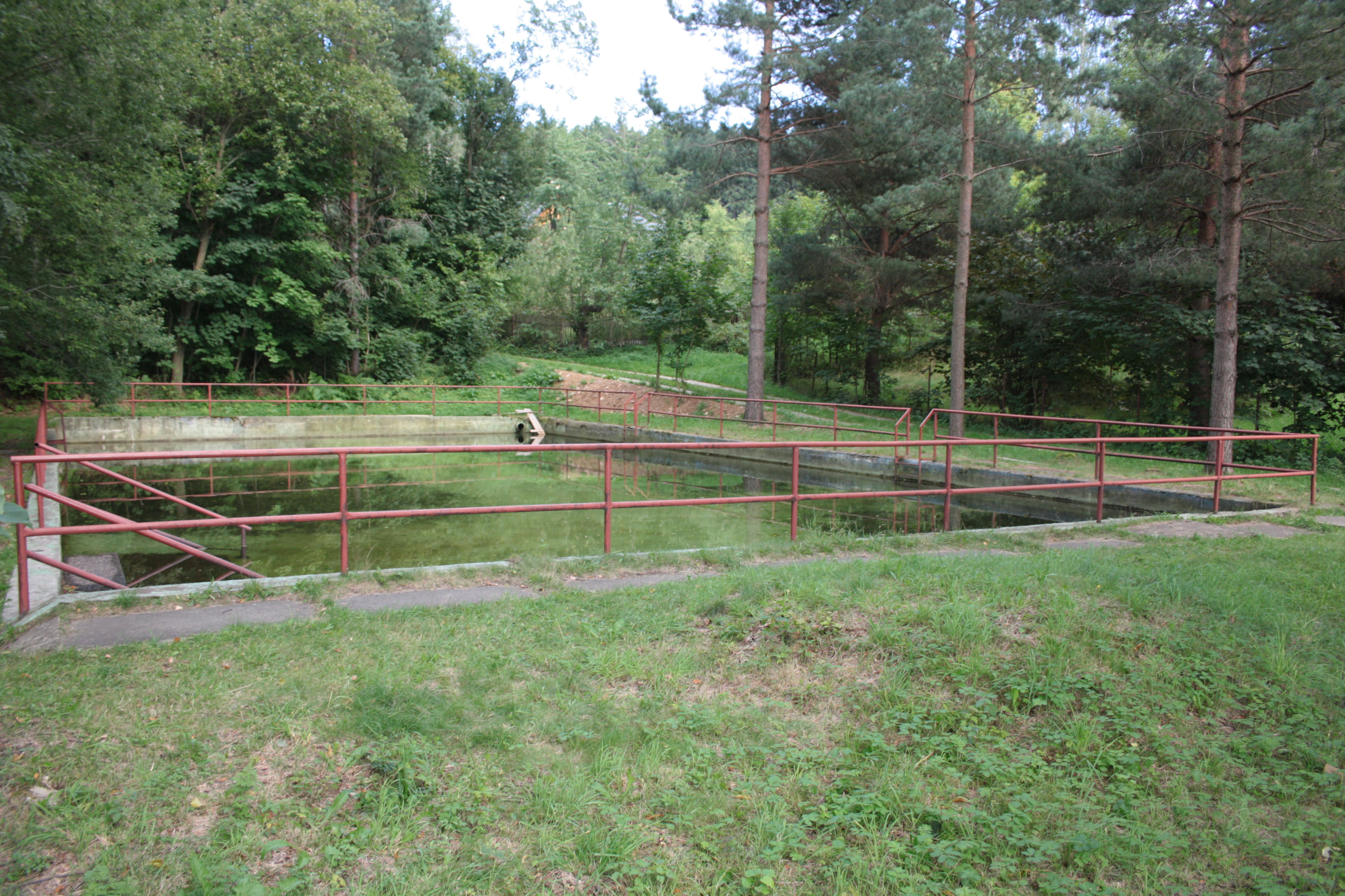 This photograph was taken with a DSLR from WMCZ's Camera grant. Koupaliště v Přebytku.